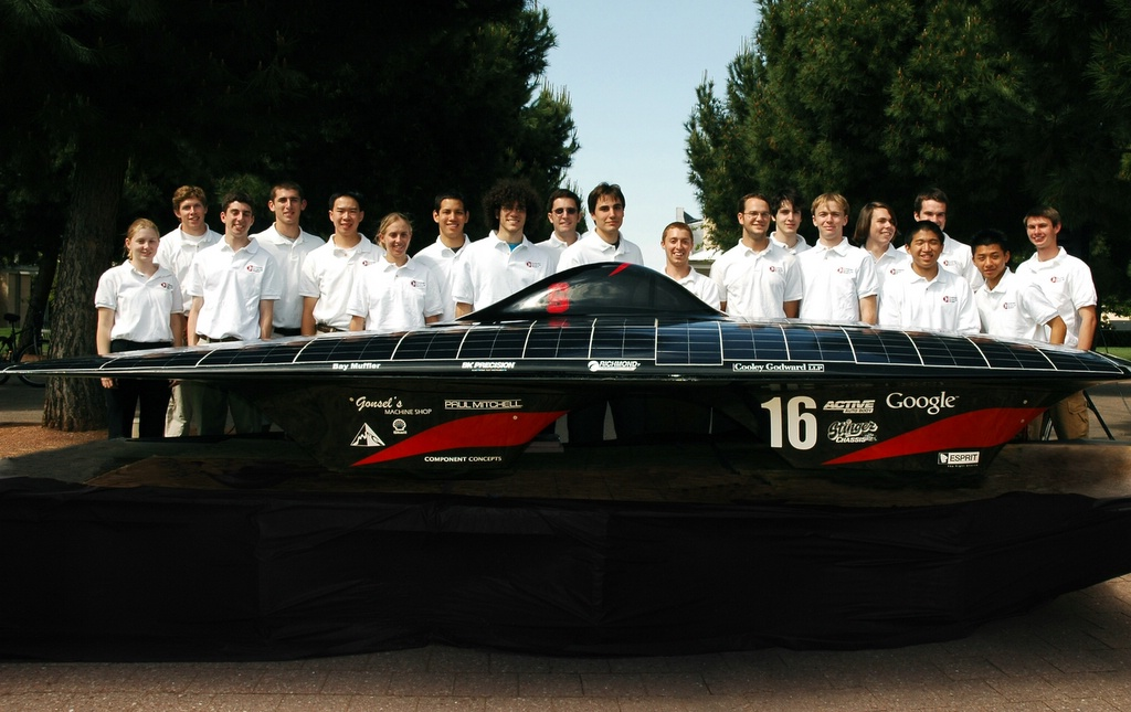 Photo by John Shen, Stanford Solar Car Project